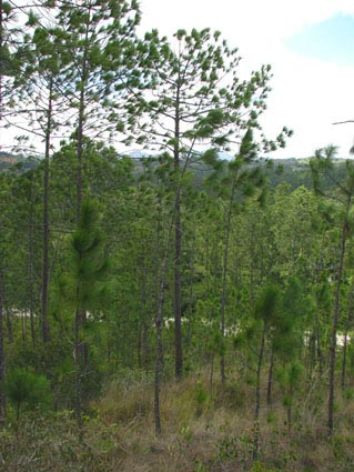 Pi tropical